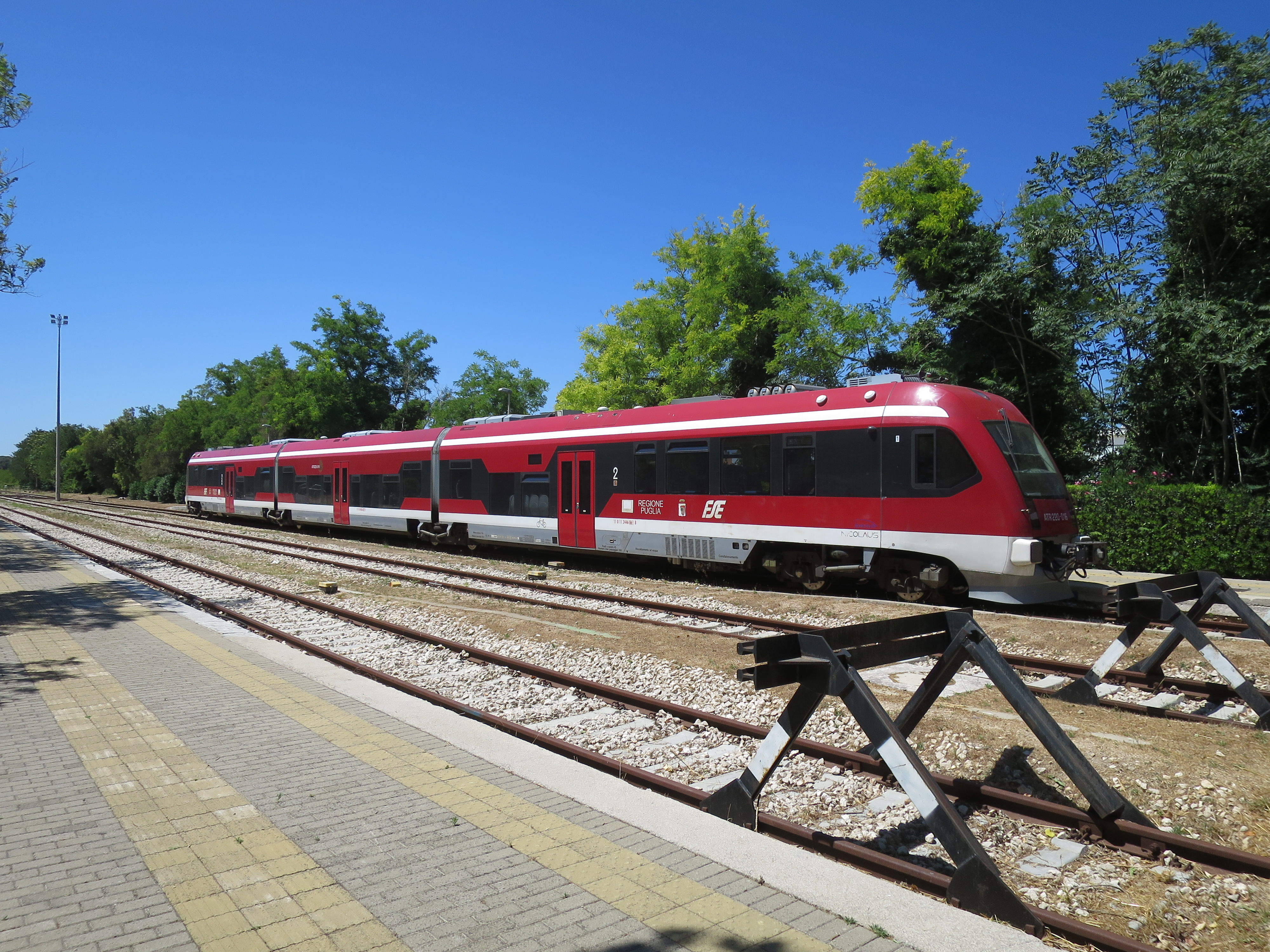 Rly Station Otranto